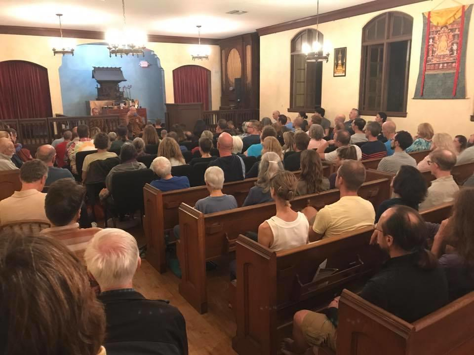 Service at Dharma Bum Temple with guest speaker Thanissaro Bhikkhu